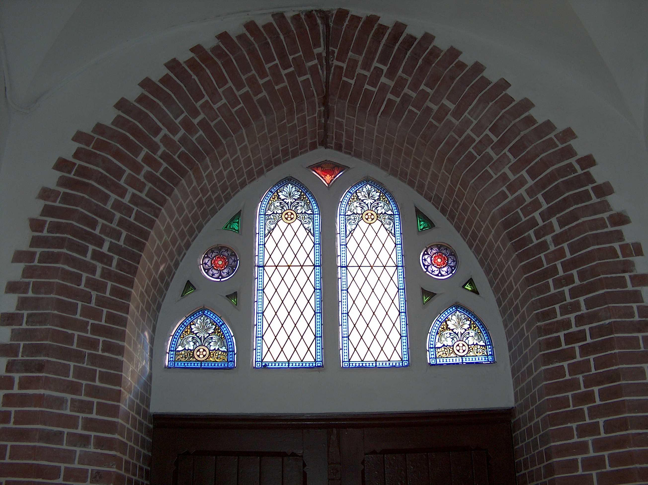 Stained glass in portal in Our Savior Lutheran Church in Szopienice.